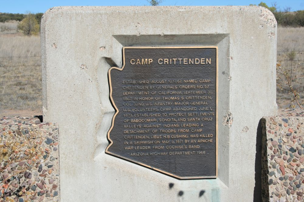 Camp Crittenden Roadside Marker